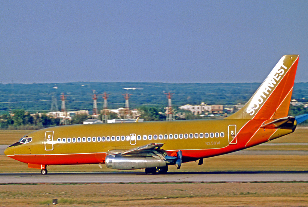 Boeing 737-2A1 N25SW of Southwest Airl;ines at San Antonio International Airport in 1975